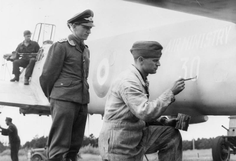 The Royal Air Force in Denmark Following the Liberation, 1945 German prisoners of war paint British markings on a Messerschmitt Bf 110 night fighter in preparation for the aircraft to be flown to England for evaluation, August 1945.